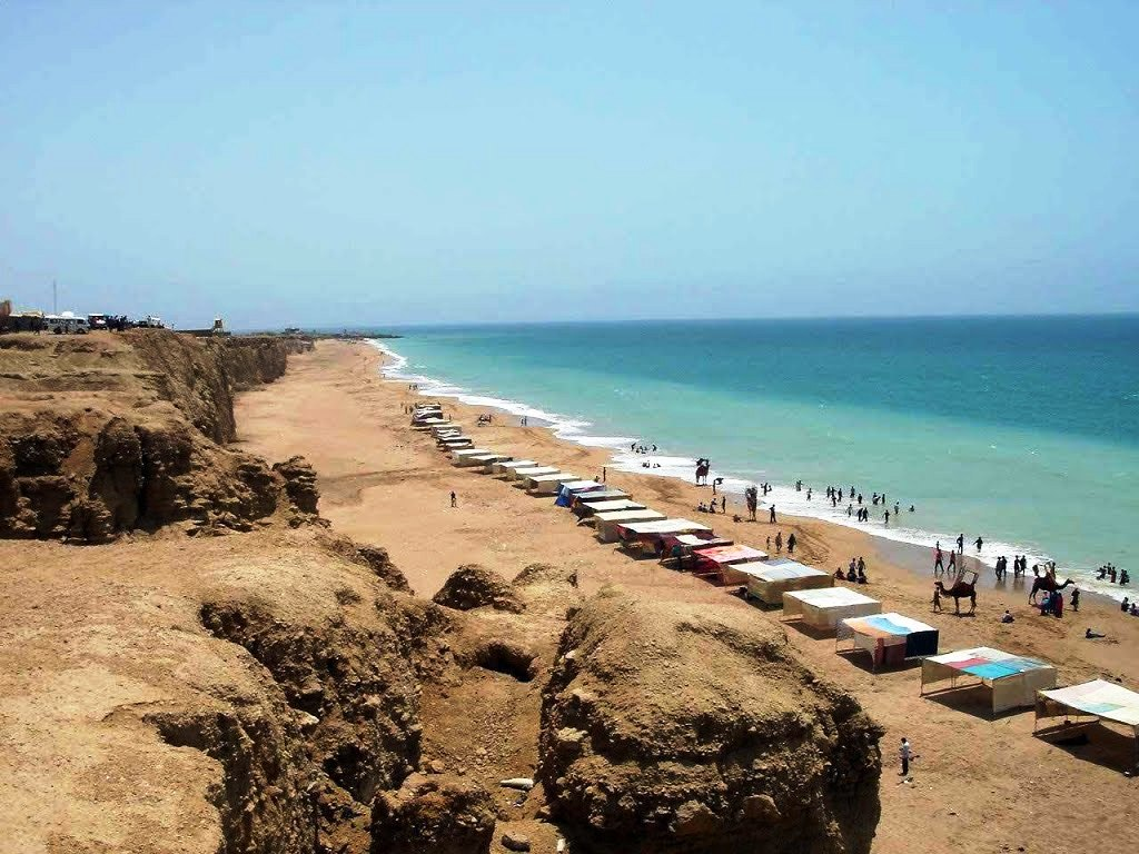 A view of Hawke's Bay, near Karachi